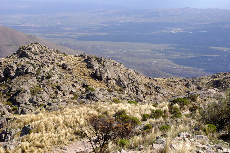 Cerro Uritorco